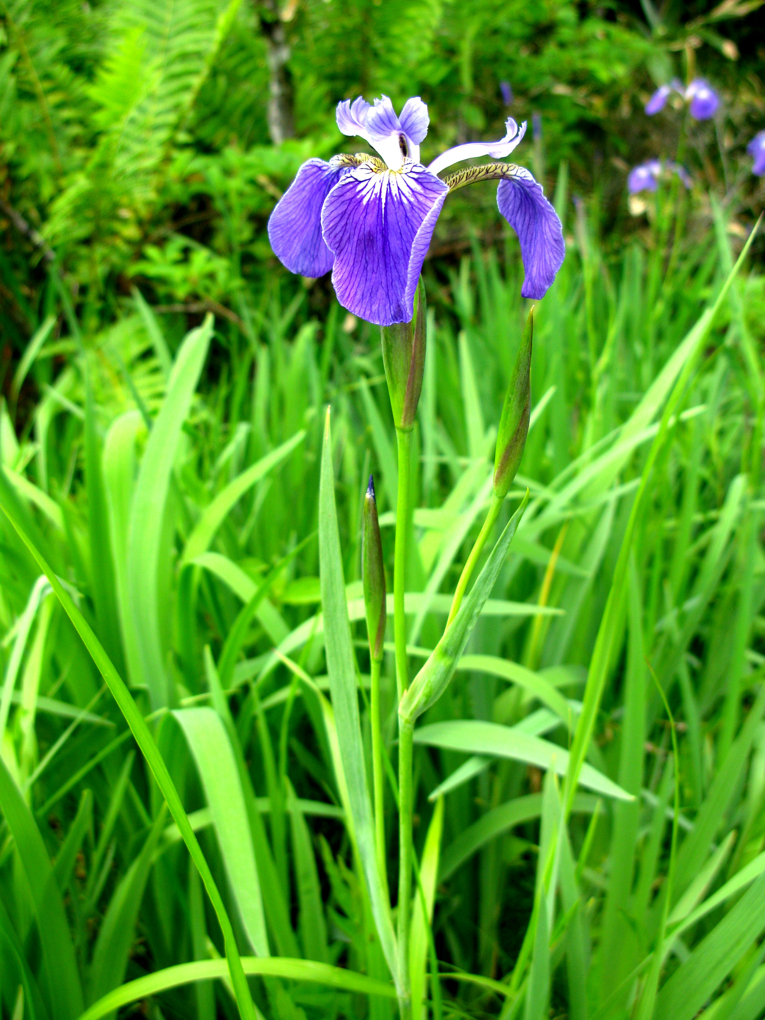 Iris setosa, Aizu area, Fukushima pref., Japan